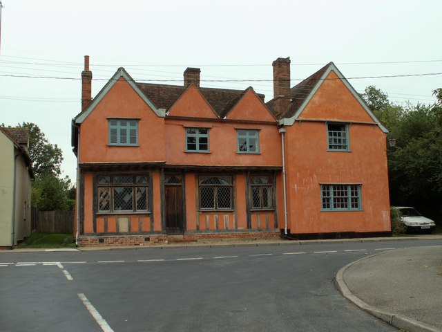 An old house on Benton Street, Hadleigh, Suffolk This fine timber-framed house has been recently restored.